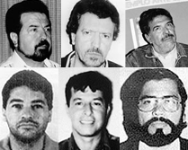 Different images from US Federal Government (DEA) put together